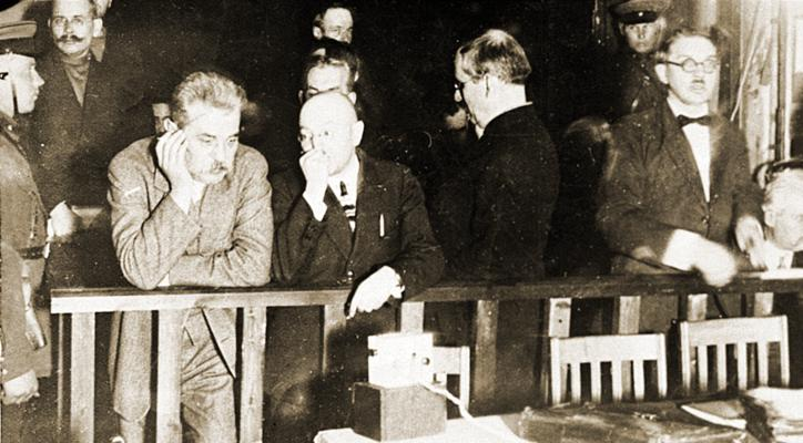 Serhiy Yefremov in the dock. Union for the Freedom of Ukraine process, show trial in the USSR (Kharkiv) from March 9 to April 19, 1930